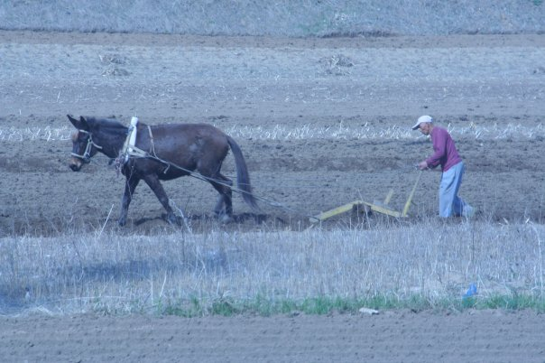 A Chinese farmer in Liaoning in 2009, using a horse-drawn plow.